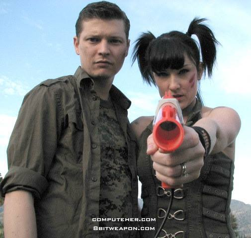 8 Bit Weapon